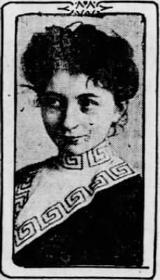 Screenshot-2017-9-17 1 Aug 1912, Page 11 - St Louis Post-Dispatch at Newspapers com